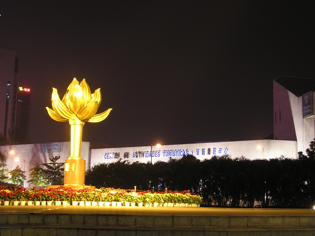 The Lotus Square in the Macau.The photograph was taken by Alan Mak in December 31st, 2005.